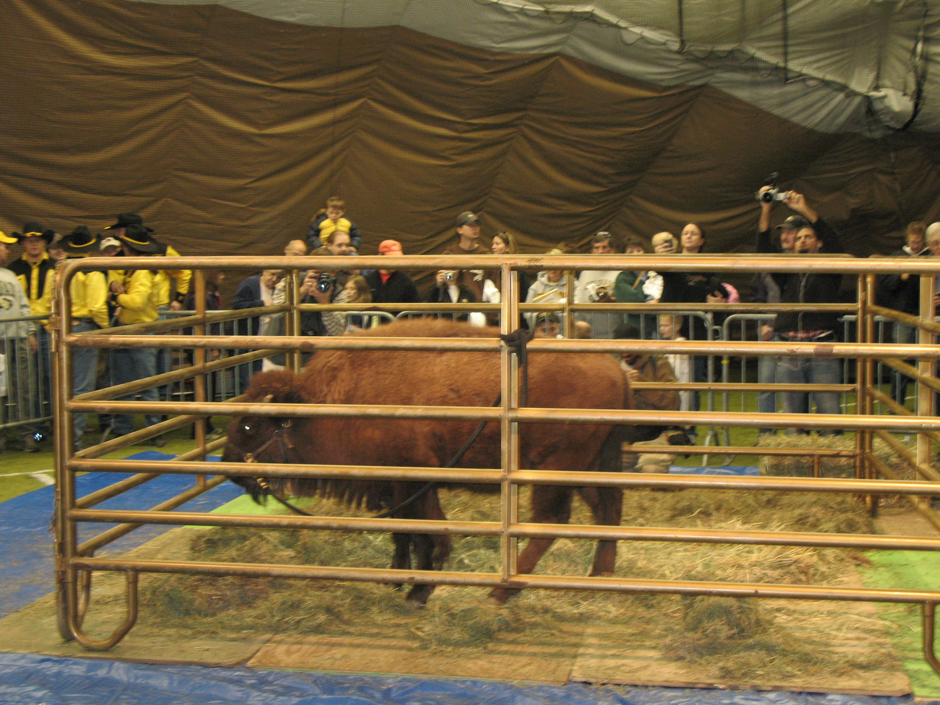 I took this photo at the "Ralphie's Salute to a New Era" event.